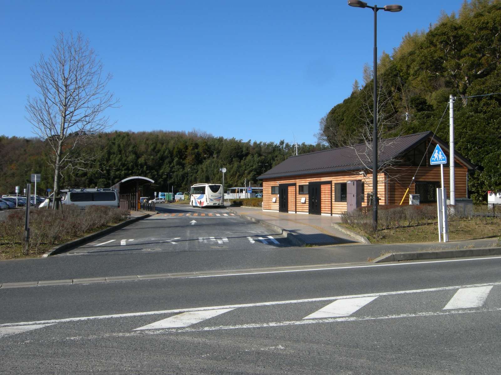 Kimitsu Bus Terminal in Chiba, Japan